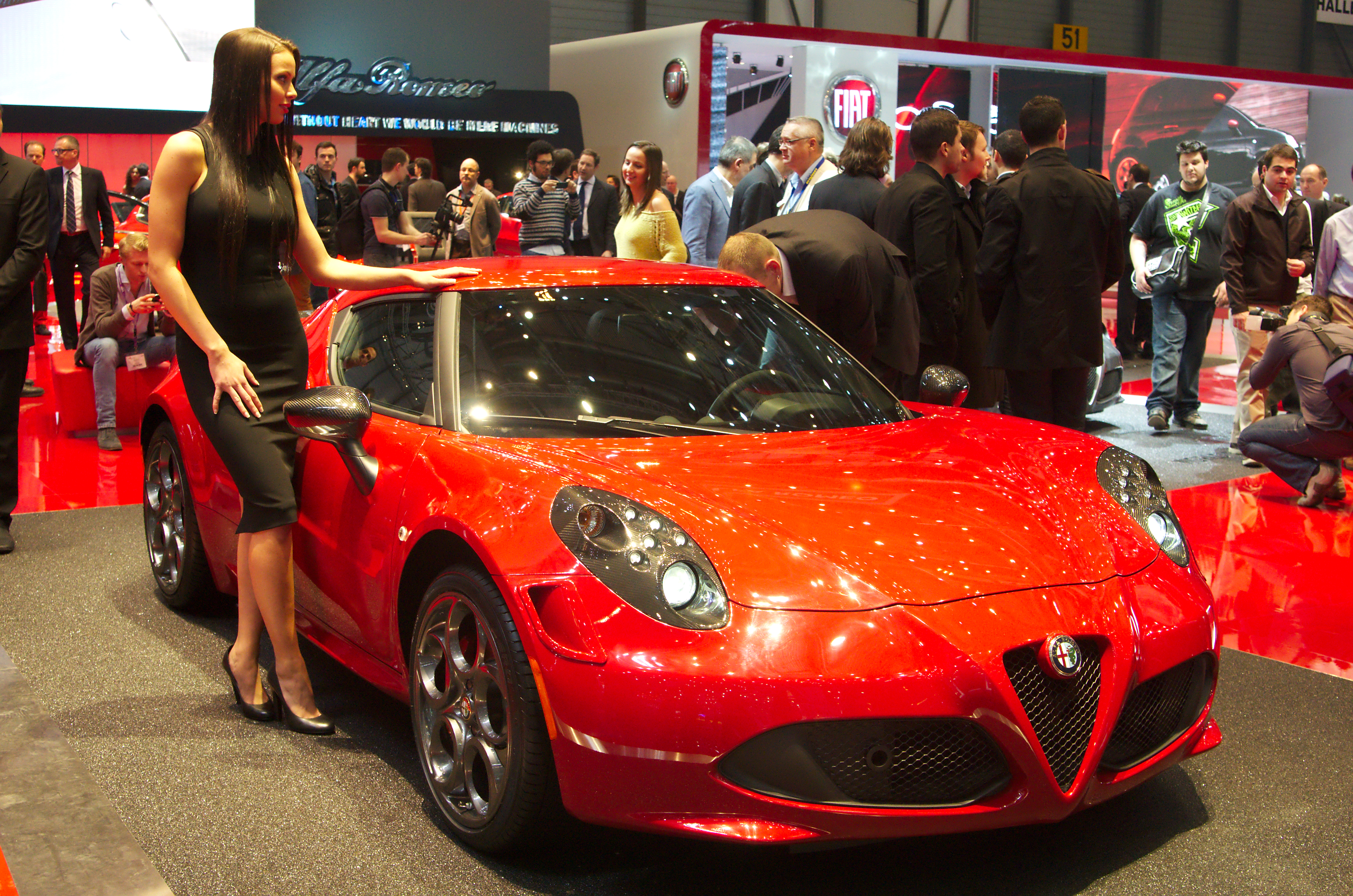 Geneva MotorShow 2013 - Alfa-Romeo 4C red